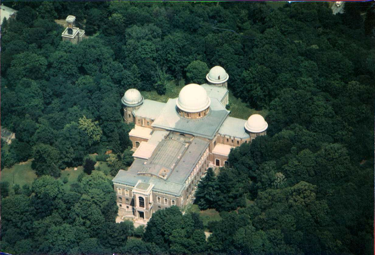 The Vienna University Observatory from above